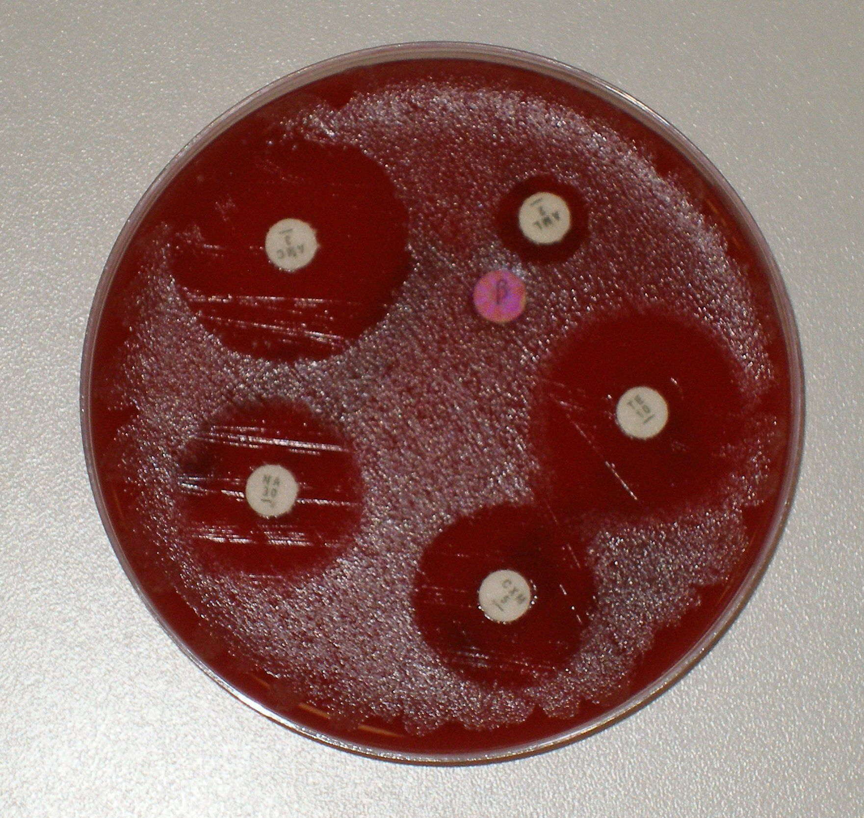 Antibiotic sensitivity test for an isolate of Moraxella catarrhalis. This strain shows resistance to the antibiotic ampicillin because it produces the enzyme beta-lactamase. This has been confirmed by the red colour produced by this enzyme on the paper disc labelled ß.